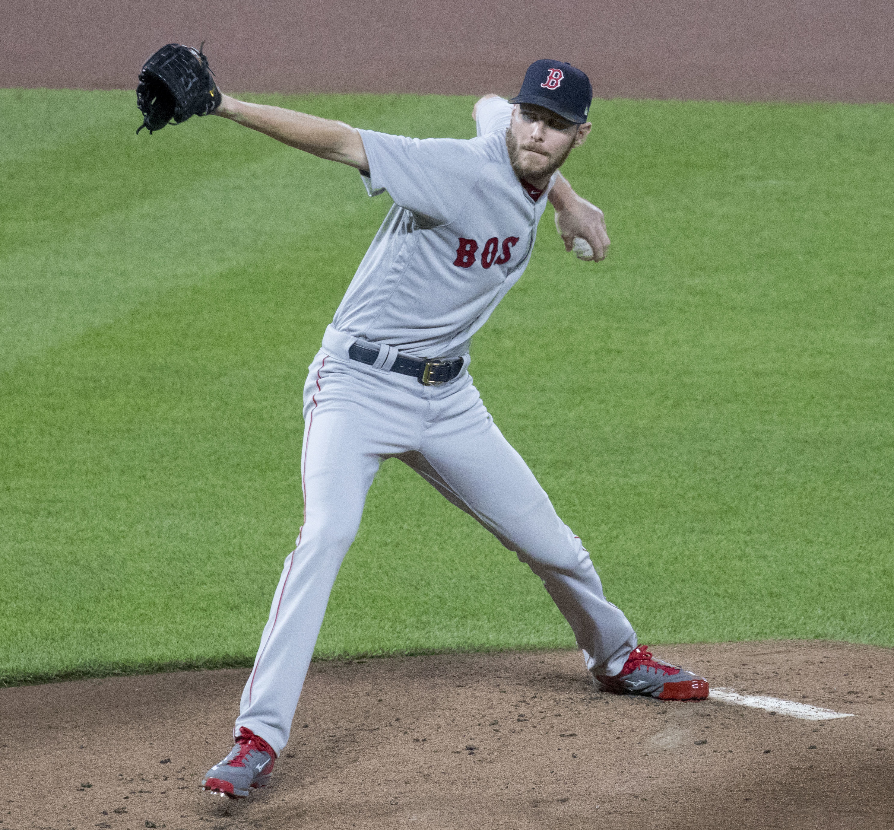 Chris Sale of the Boston Red Sox in a game against the Baltimore Orioles at Oriole Park at Camden Yards on September 20, 2017 in Baltimore, Maryland.